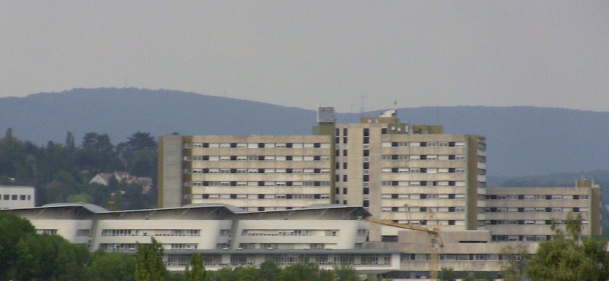 Jean minjoz hospital, located in the area of Planoise, in Besançon (Doubs, France)